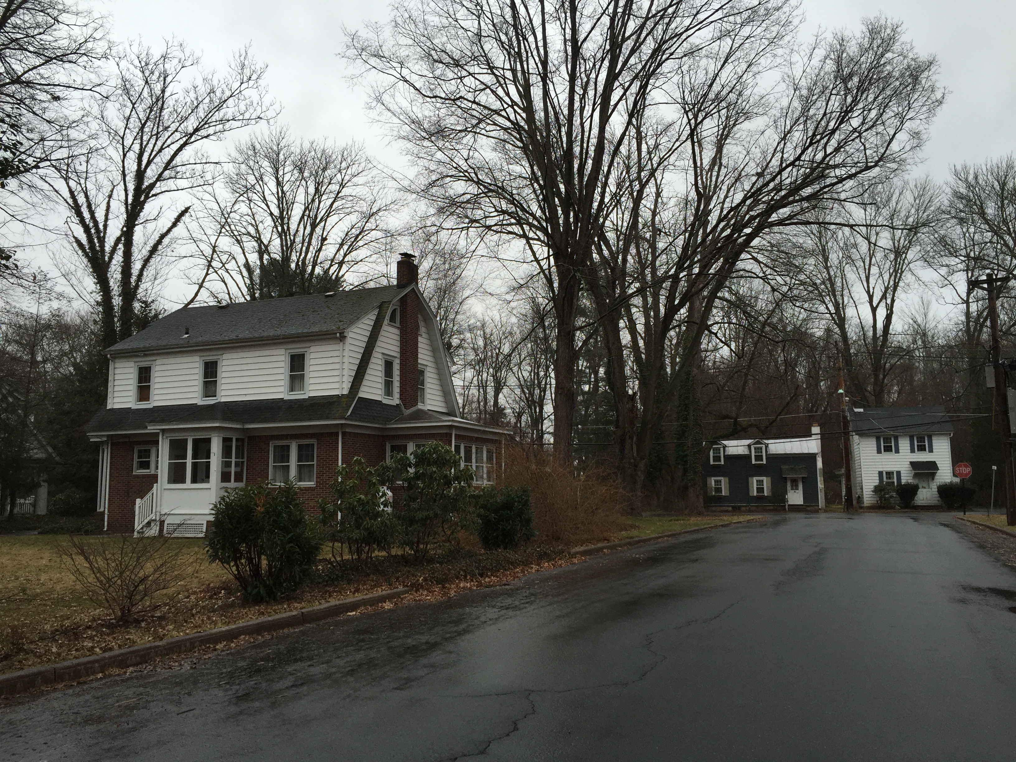 Houses near the intersection of Riverview Drive and Wilburtha Road in the Wilburtha section of Ewing, New Jersey